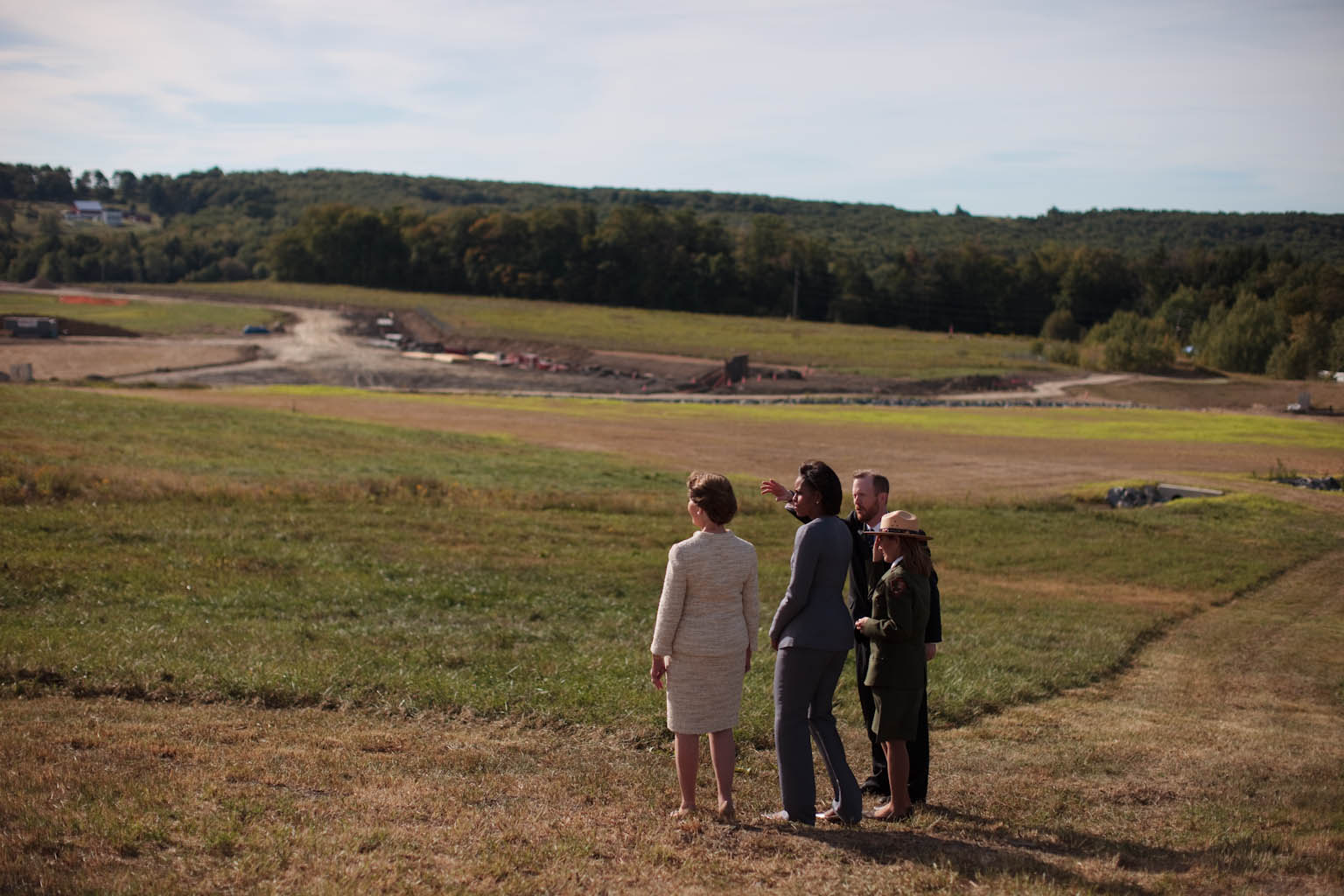 Former First Ladies Michelle Obama and Laura Bush survey the site of the Flight 93 airplane crash in Stonycreek Township, Pennsylvania, September 11, 2010.